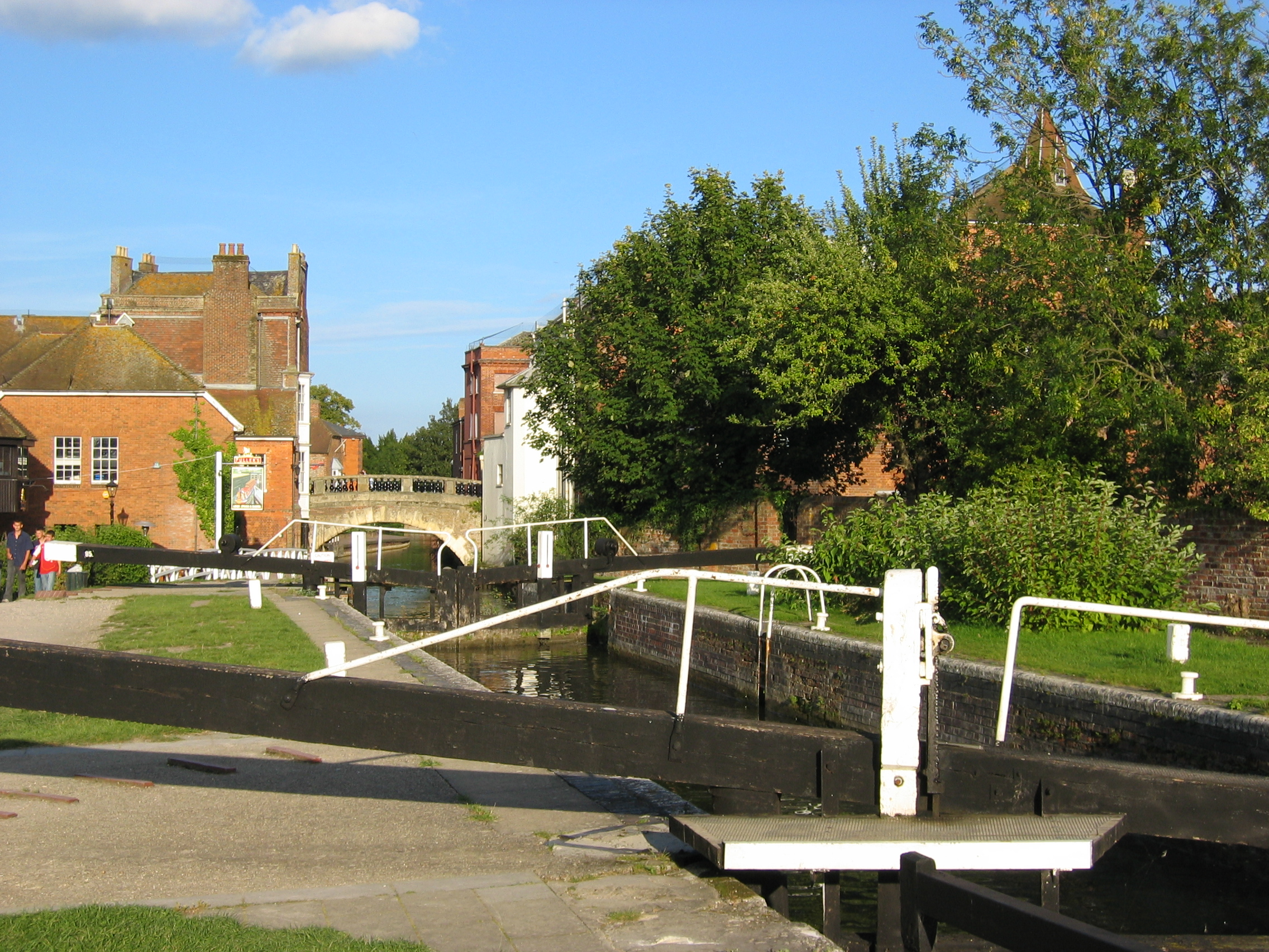 A lock on the Kennet and Avon Canal in central Newbury, Berkshire, England. Taken by Martin Tod on September 4, 2004.